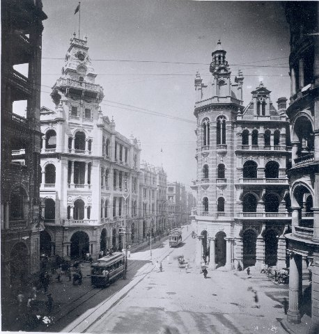 Des Voeux Road Central, Central District, Hong Kong Island, c.1912. The junction with Chater Road is in the foreground, while Pedder Street is on the right between the General Post Office, completed in 1912 (upper right), and Union Building (just visible, lower right). On the left a portion of the Hong Kong Hotel (later Gloucester Building) is visible opposite the imposing premises of Jardine, Matheson & Co. Two single-deck tramcars are moving in opposite directions (the double-deckers were introduced in 1912 but without totally replacing the single-deckers).